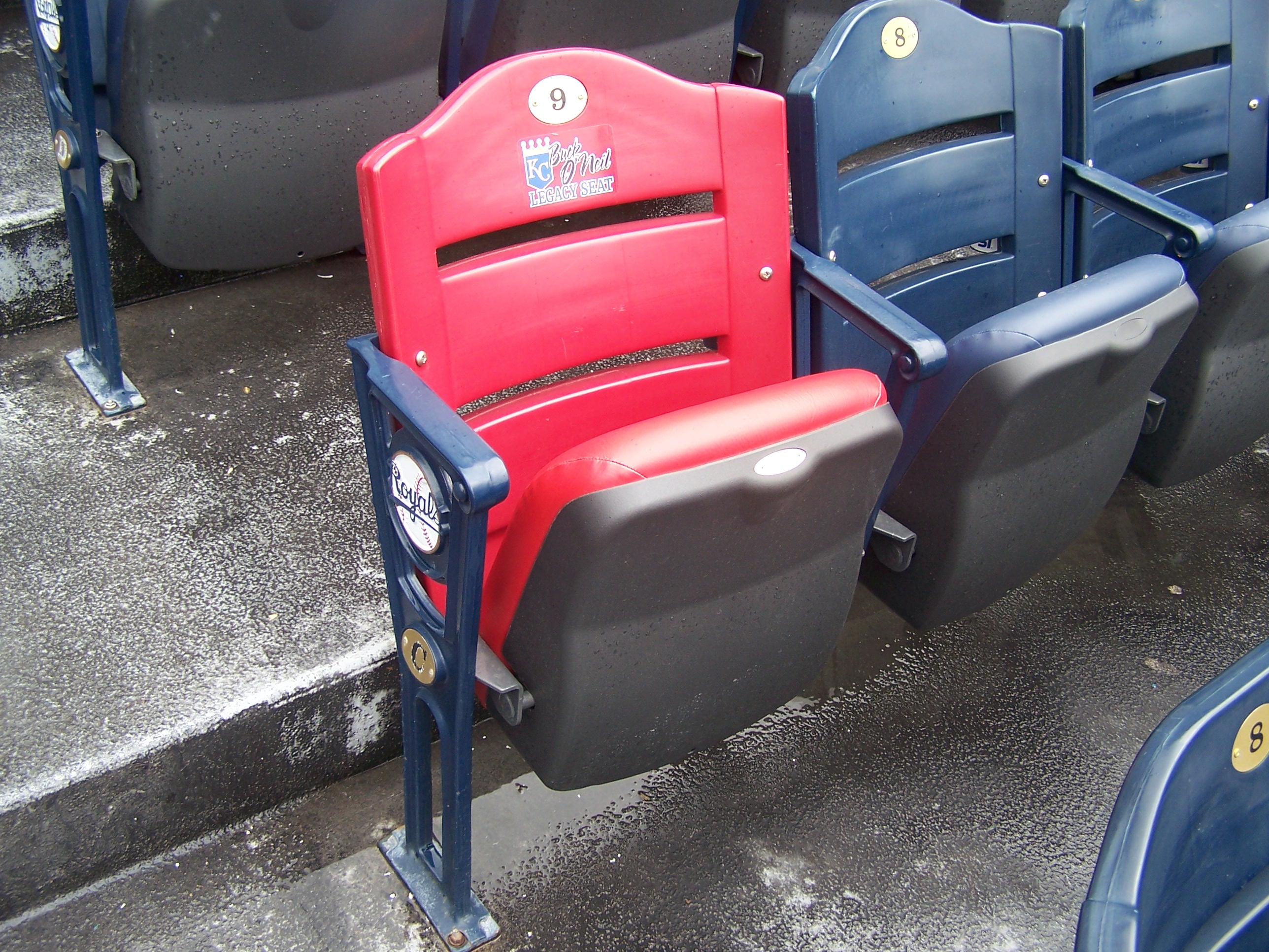 This is a 2009 Photo of the Buck O'Neil Legacy Seat. For 2009 the seat is now padded as it is now called the Diamond Club Seats Section. The Seat number and section numbers has changed in 2009 to Section: 127 Seat: 9 Row: C Own Work Taken by myself durring Kuaffman Stadium Open House on April 5, 2009.